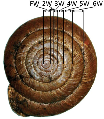 Aegista diversifamilia shell, dorsal view.